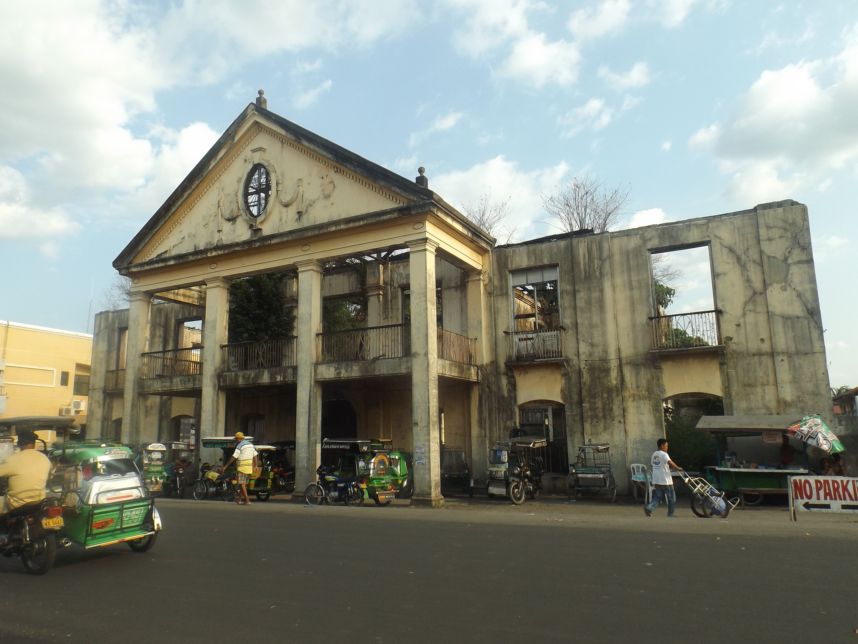 former Provincial Capitol Building of Lingayen